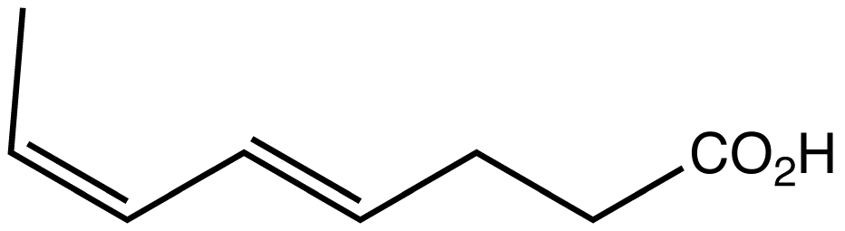 structure of tuataric acid